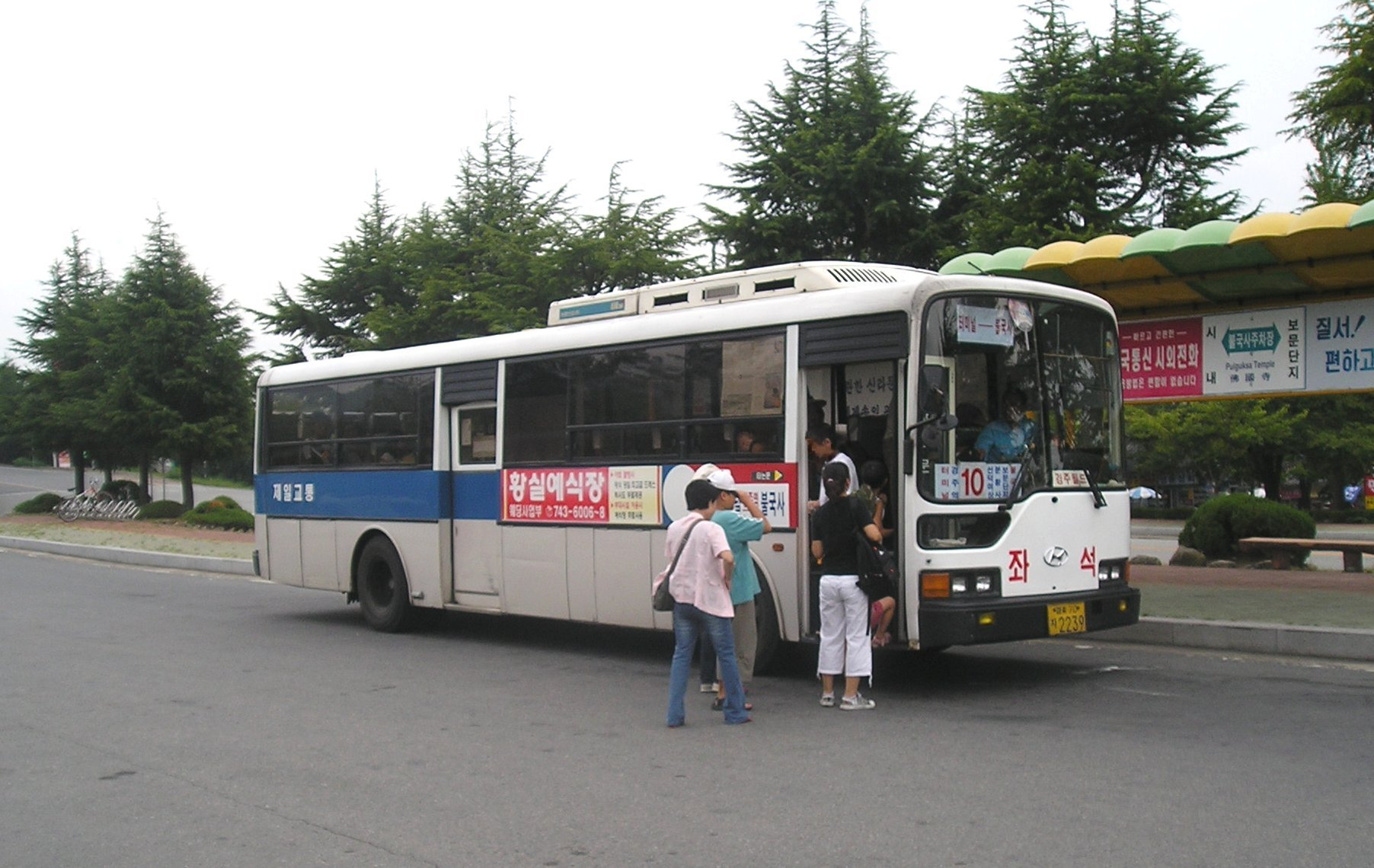 The route 10 seater bus at Bulguksa bus stop in Gyeongju, Korea